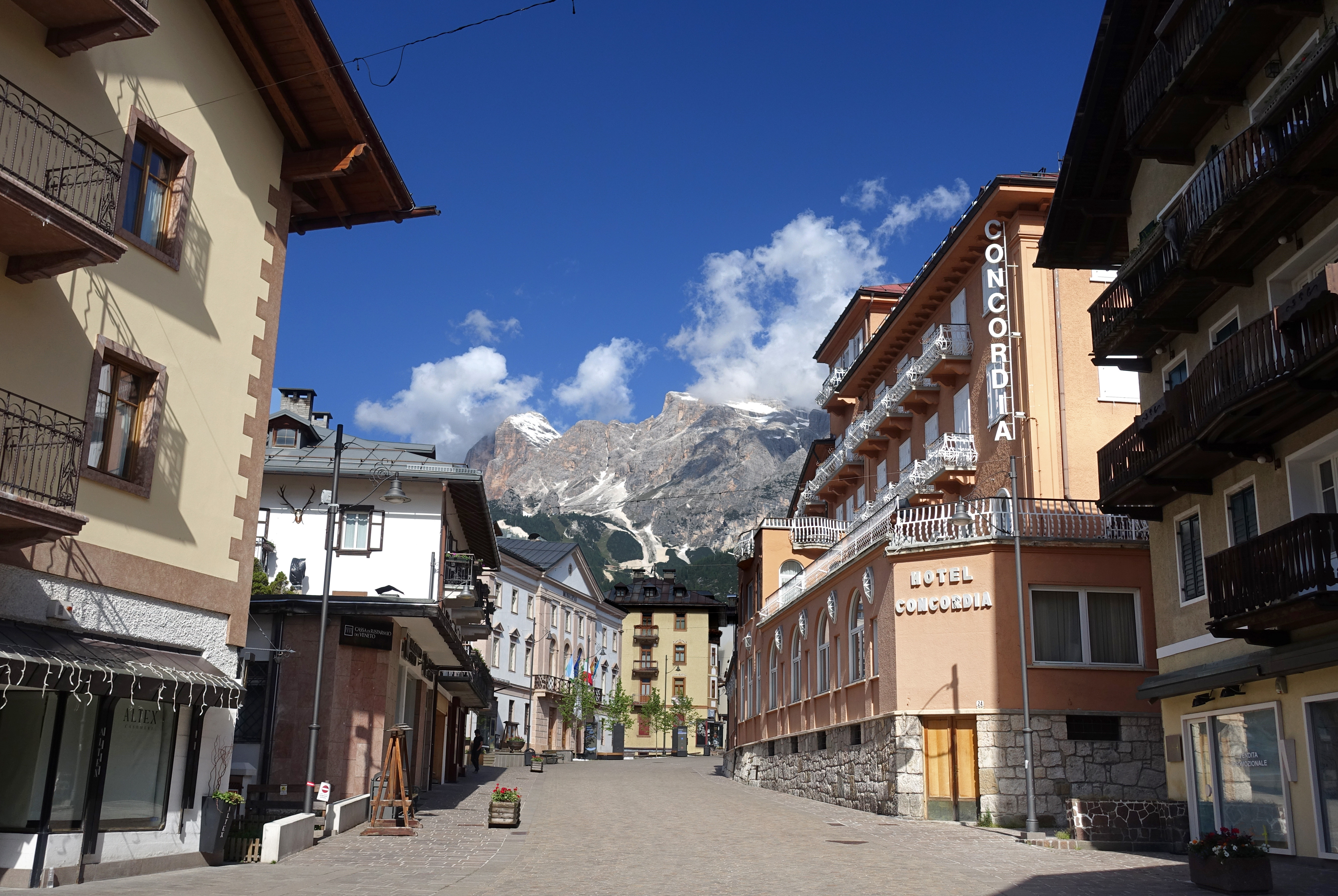 Corso Italia in Cortina d'Ampezzo, Italy.